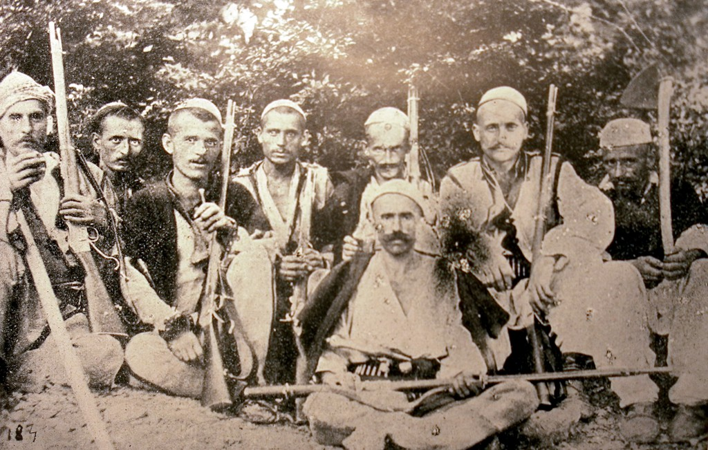 Highland Ghegs of the Dukagjin tribe near Koman on the Drin River